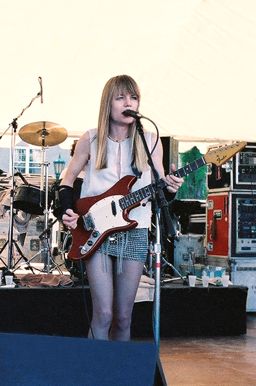 Tina Weymouth with a Fender Swinger guitar performing at a free show featuring the Tom Tom Club, Robert Hazard, David Johansen aka Buster Poindexter, and U2 at Union College in Schenectady, NY in 1986